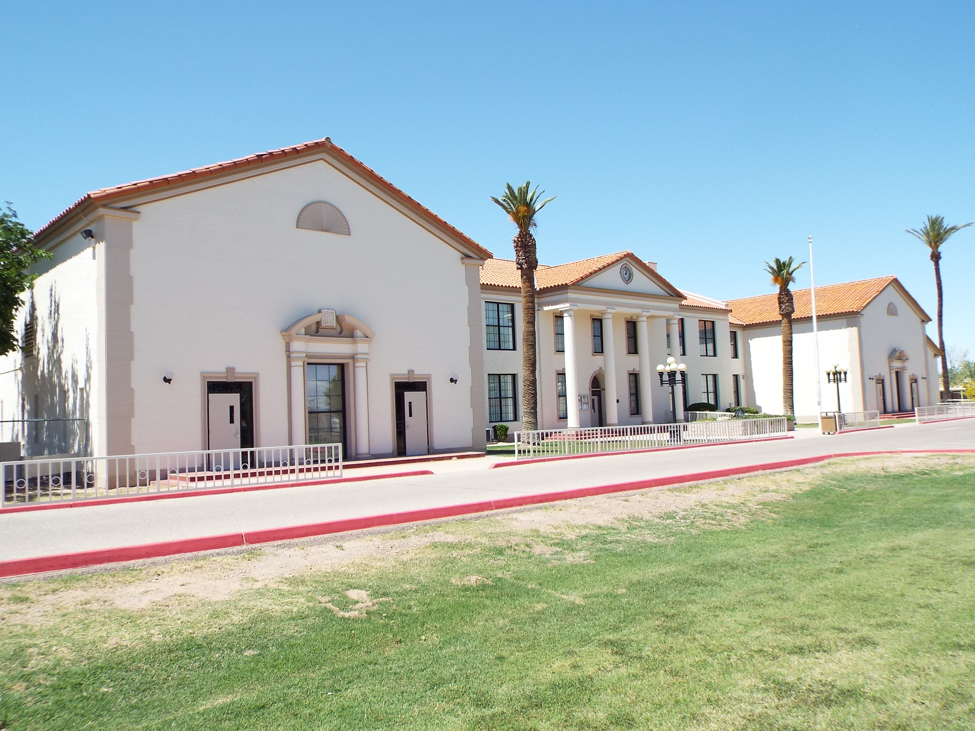 Different view of the original Coolidge High School which was built in 1939 and is located at 450 N. Arizona Blvd. in Coolidge Arizona The building now houses the offices of the Coolidge Unified School District #23.